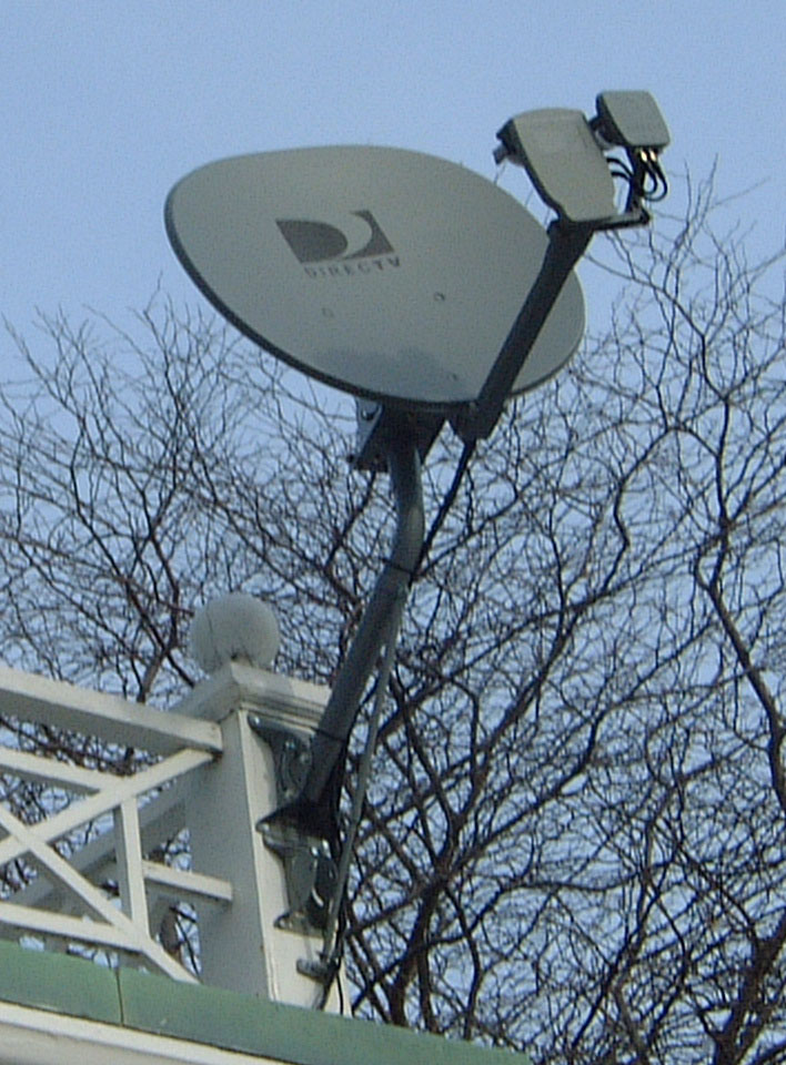 Description: DIRECTV's 5-LNB Dish Author: Jeremy Zafran (User:Masterpjz9)